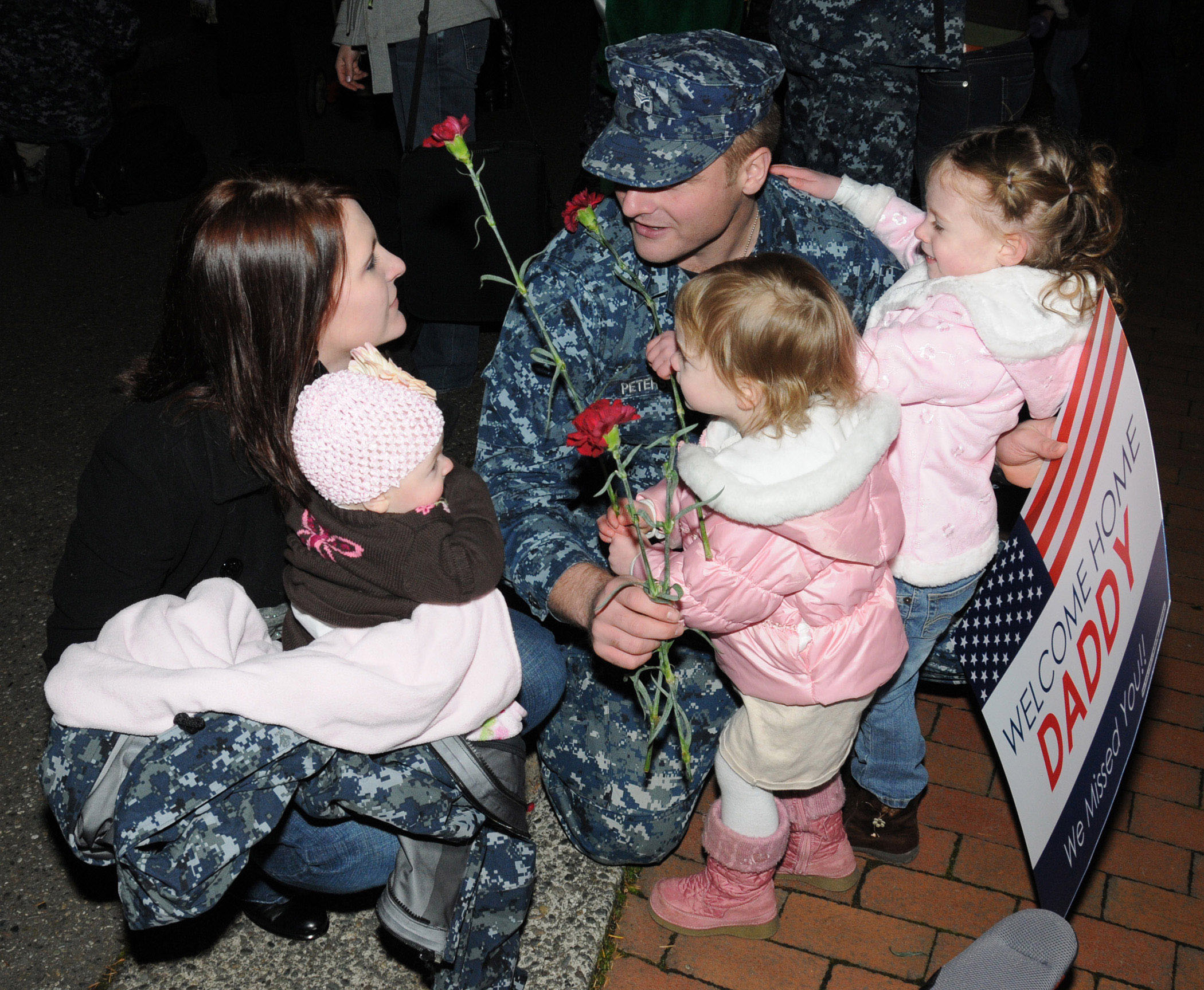 BANGOR, Wash. (Nov. 20, 2010) Machinist's Mate 2nd Class Kyle Peterson, assigned to the Gold Crew of the guided-missile submarine USS Michigan (SSGN 727), reunites with his wife and his daughters after returning from a three-month deployment. (U.S. Navy photo by Lt. Ed Early/Released)